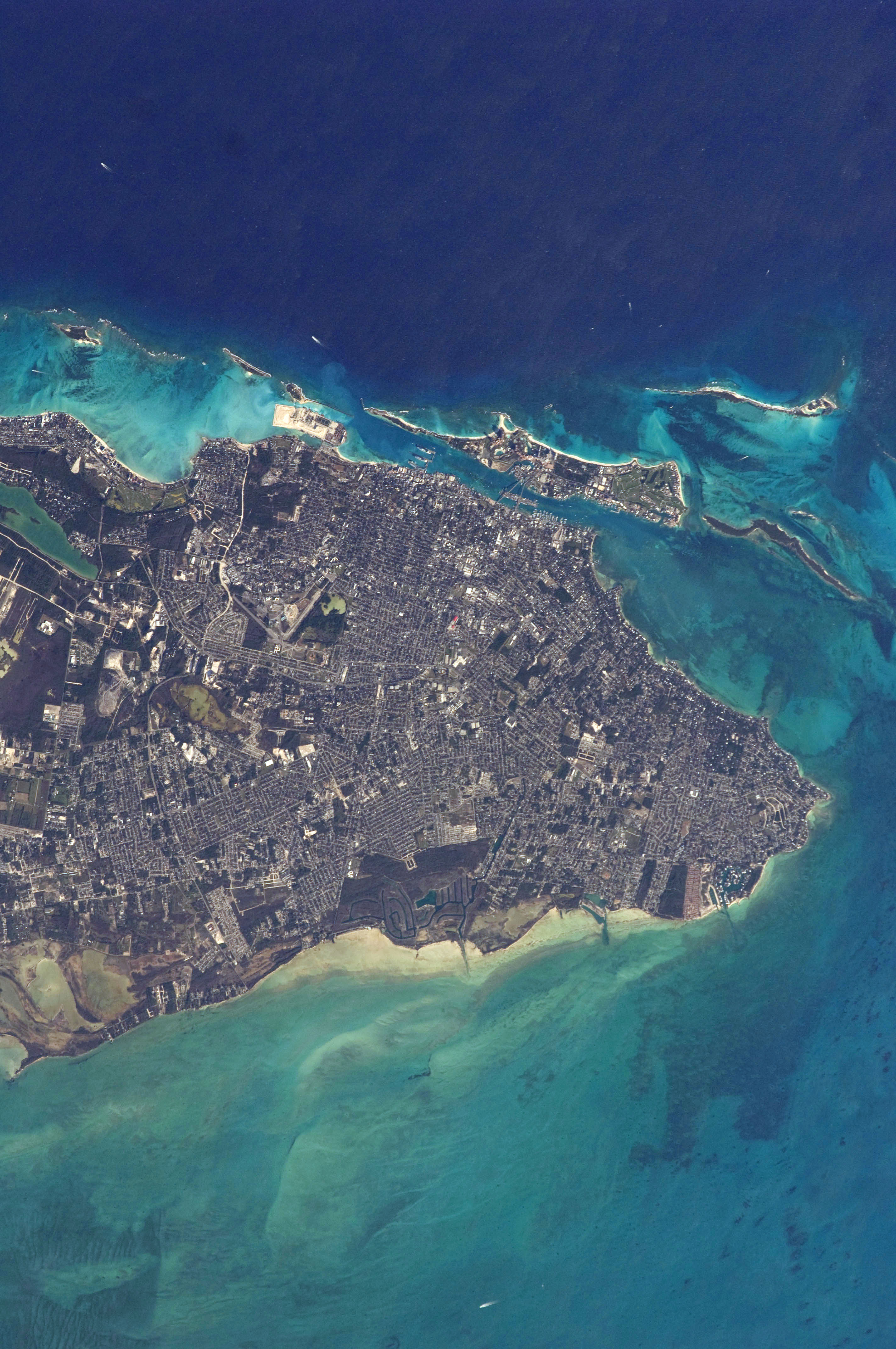 Astronaut Photo of Nassau, The Bahamas taken from the International Space Station (ISS) during Expedition 22 on January 1, 2010.